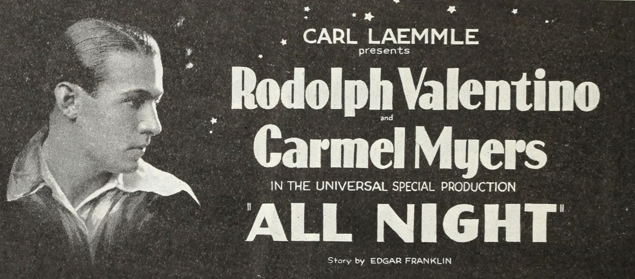 Advertisement for a poster of All Night featuring Rudolph Valentino and Carmel Myers.